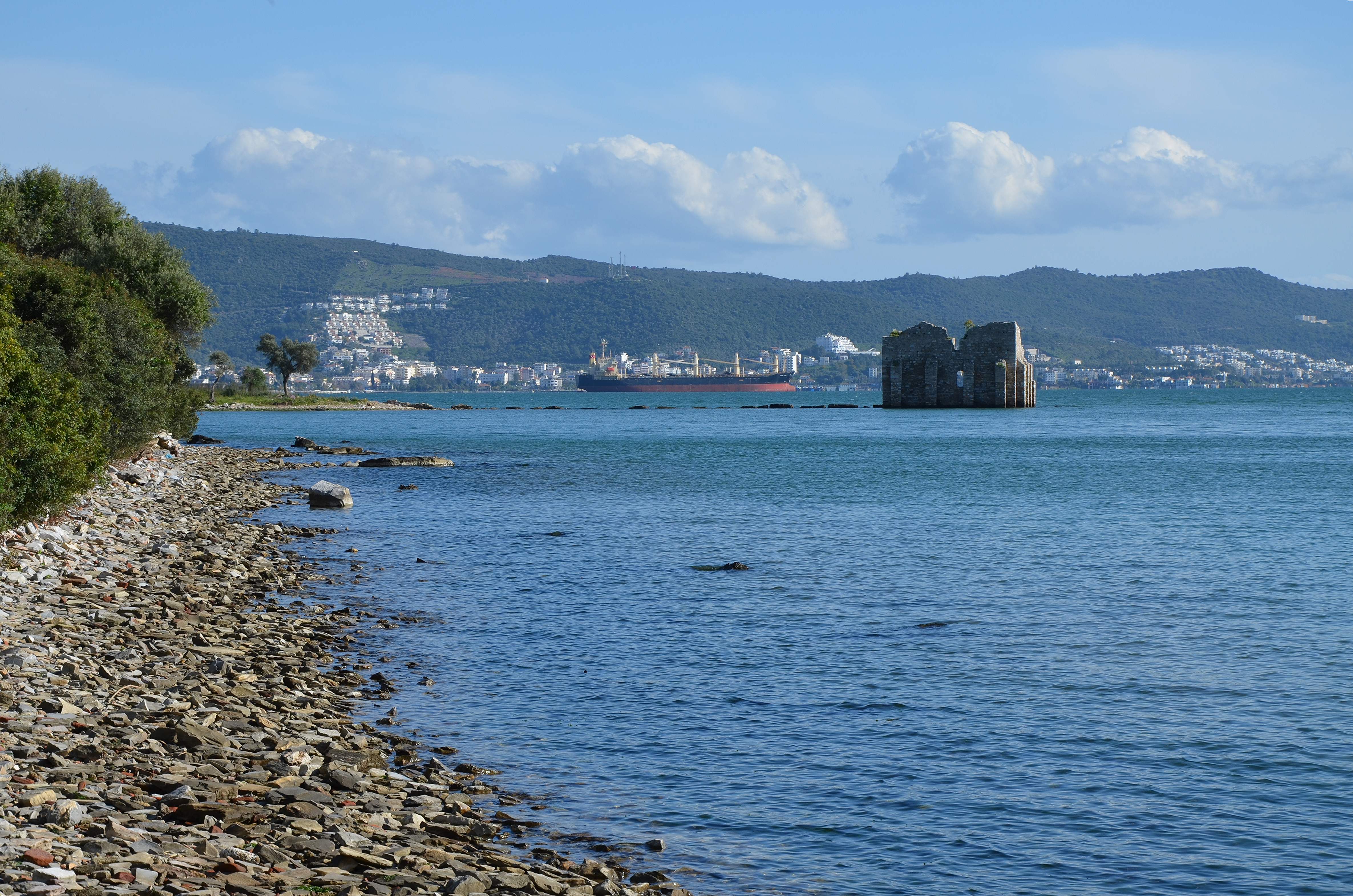 Iassos, Caria, Turkey